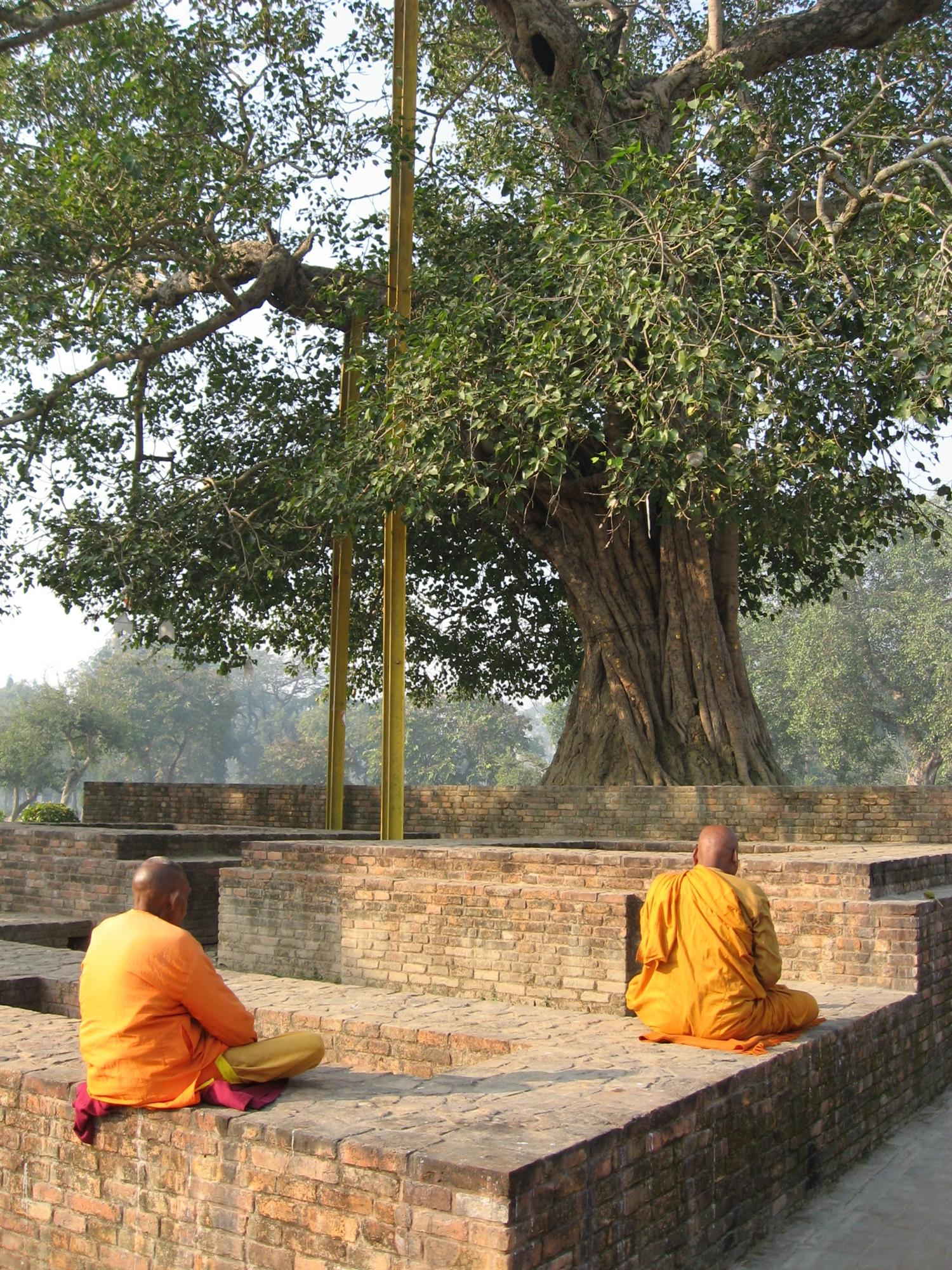 Buddhist monks meditating under the Anandabodhi tree in Jetavana Monastery, Sravasti, Uttar Pradesh, India. This is one of the 3 most holy Bodhitrees in Buddhism. The original tree was a sapling of the Mahabodhi tree in Bodhgaya.